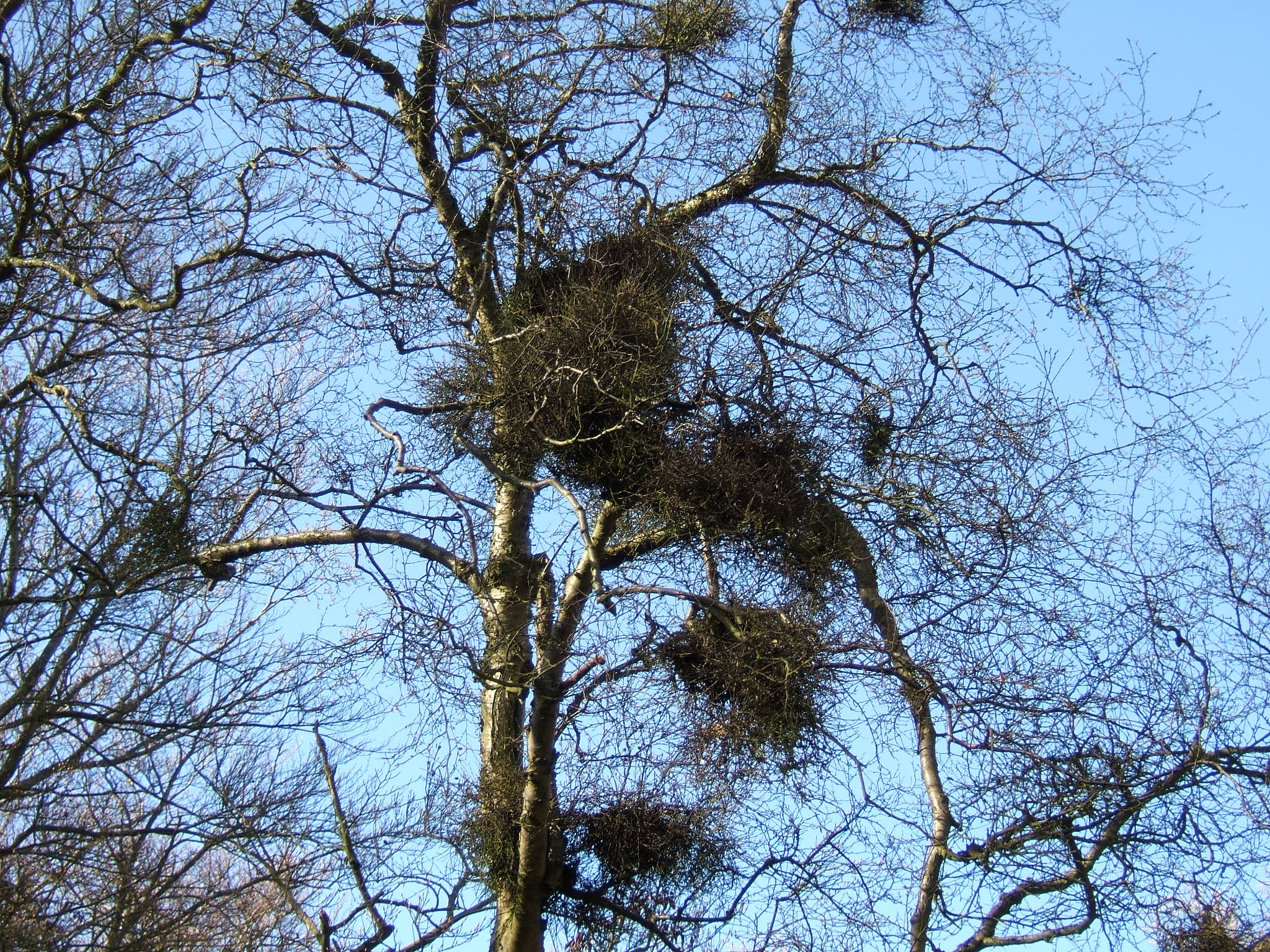 Betula pubescens with Taphrina betulina witch's broom. Beacon Hill, Northumberland, UK; 23 April 2006.